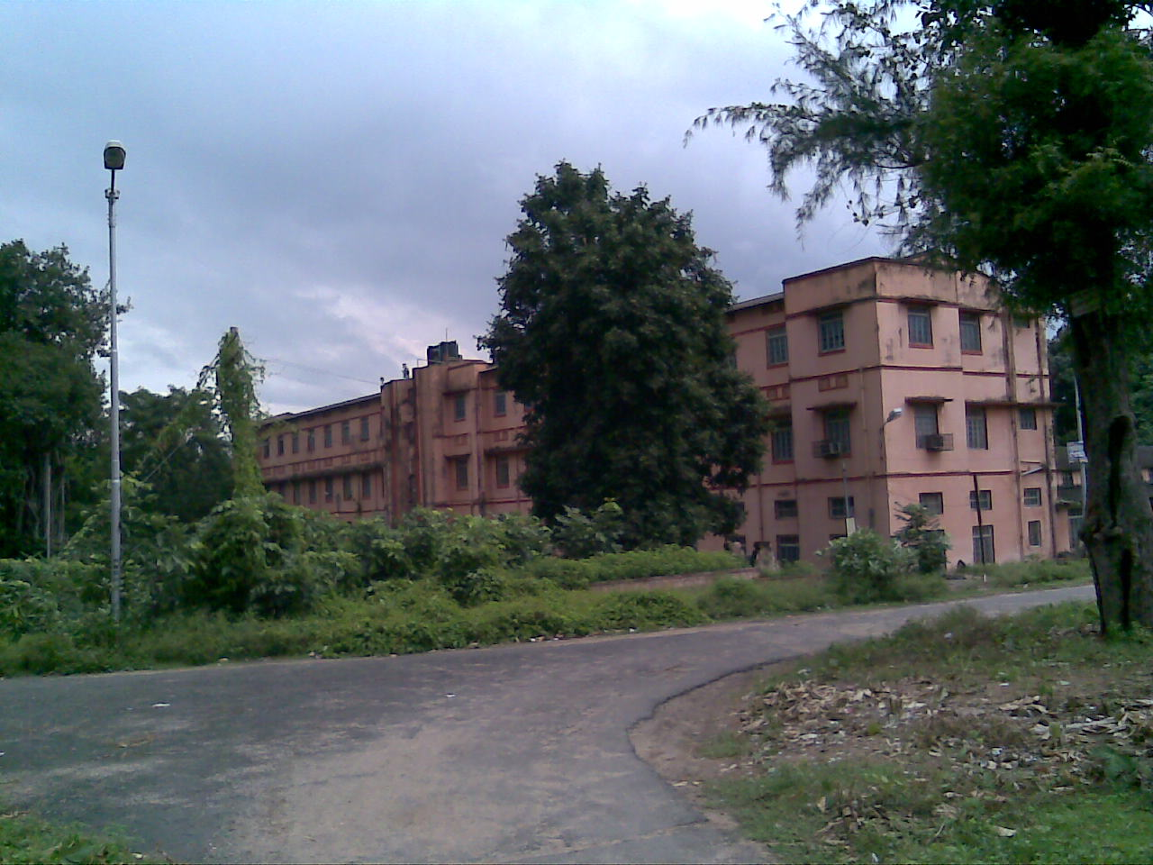 The Administration building of Bankura Sammilani Medical College. .in